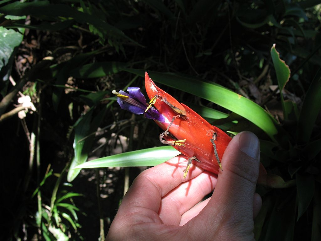 Tillandsia multicaulis in habitat in El Salvador, Dept. Santa Ana, Parque Nacional Montecristo; 1841m.